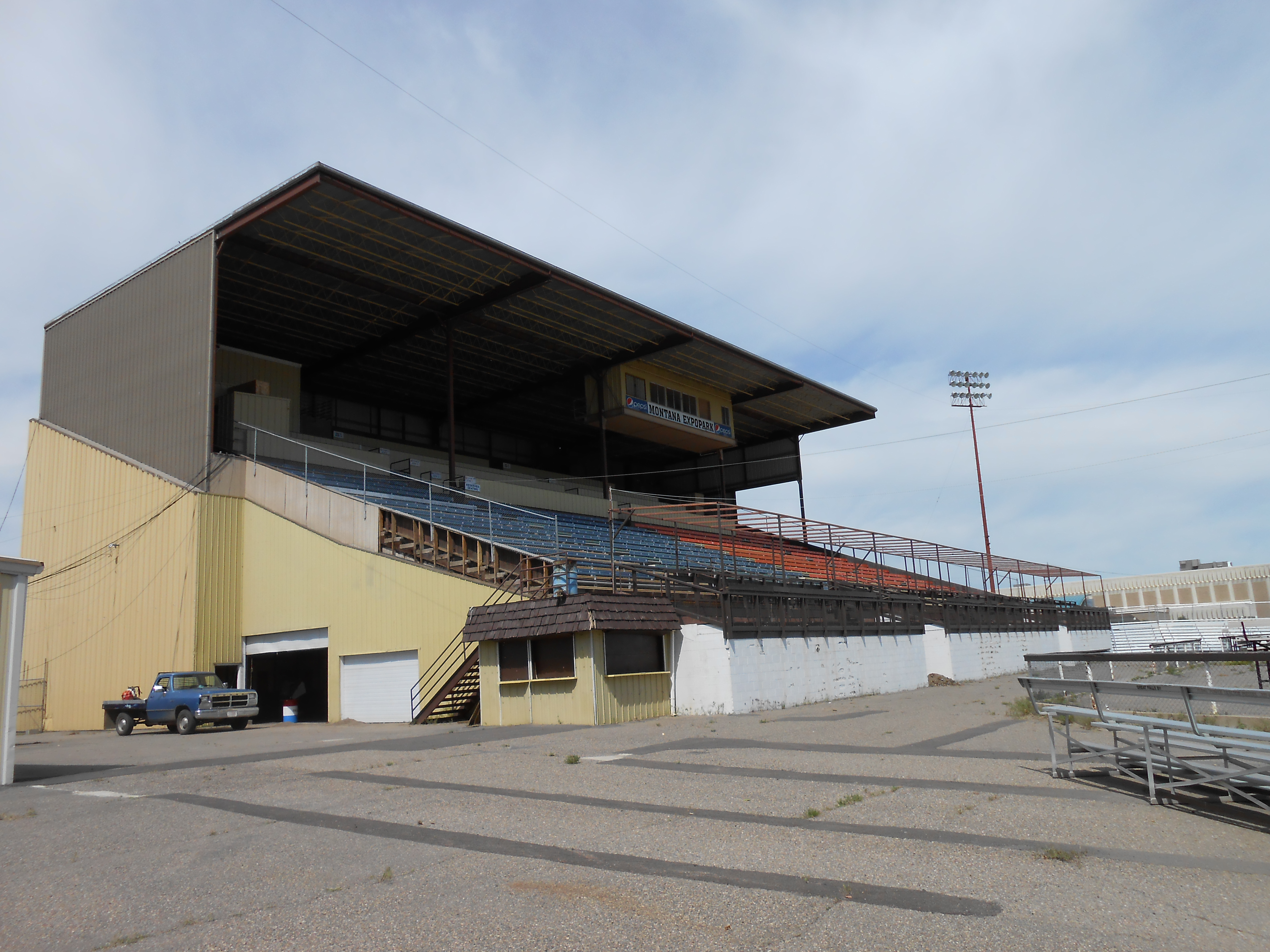 Fairgrounds at Great Falls, Montana; Montana Expo Park, home of the Montana State Fair.